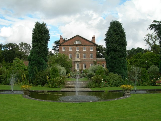 Sutton Park, Sutton-on-The-Forest, Hambleton in North Yorkshire